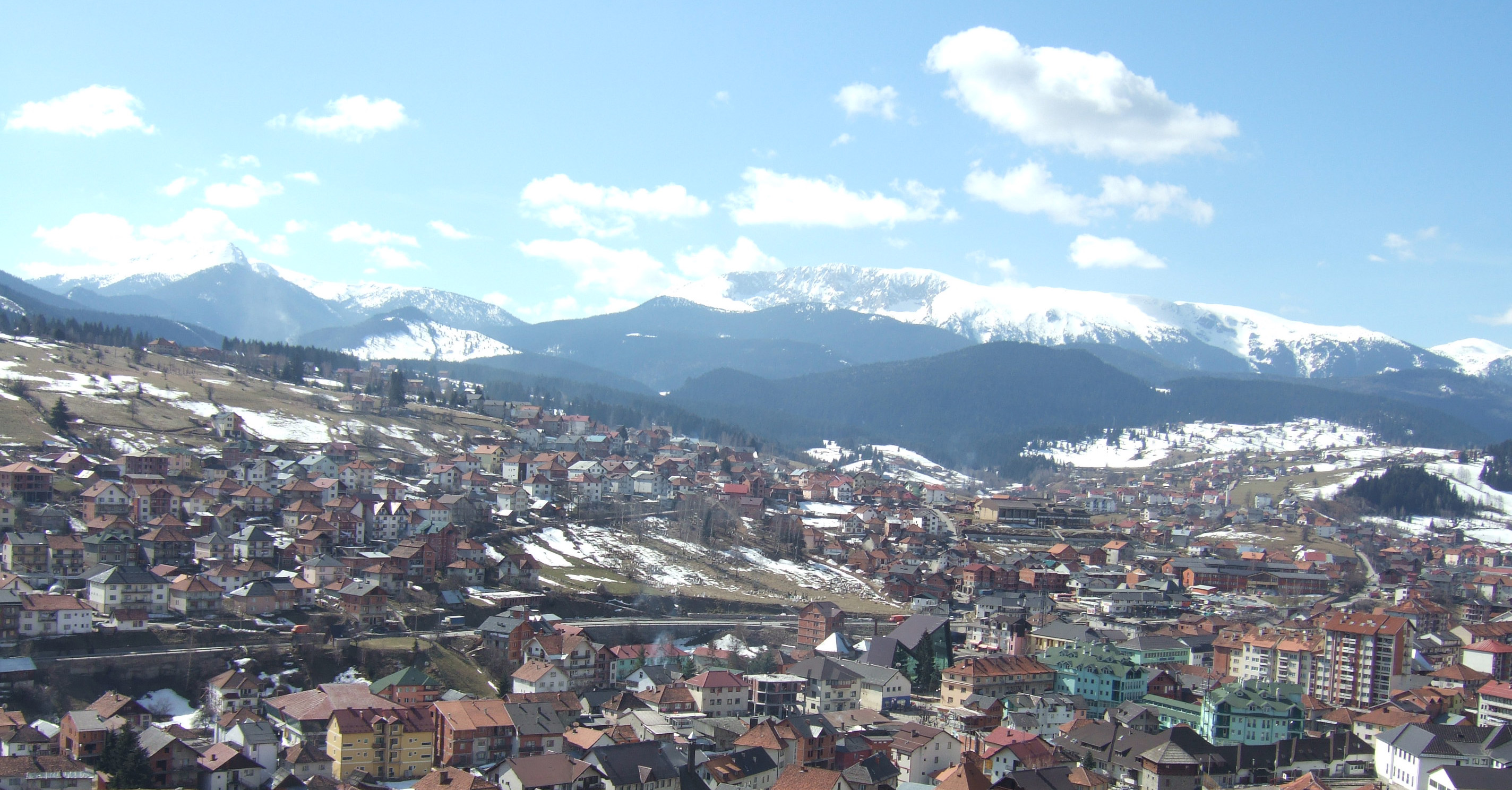 Photograph of Rozaje, a town in Eastern Montenegro. The sun was very bright and in turn the mountains in the background and clouds do not come out very well. This is a slightly cropped version of the original, which had an unnecessary part of the hill I was standing on in the foreground, which was just in the way.